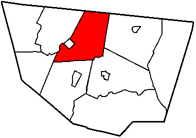 Map of Sullivan County with township and municipal bondaries is taken from US Census website [1] and modified by User:Ruhrfisch in August 2005. My modifications licensed under the GNU Free Documentation License. Source: US Census website [2], modified by User:Ruhrfisch